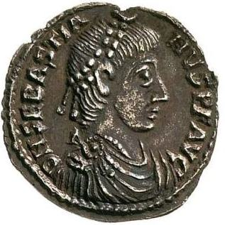 Siliqua of Sebastianus, Roman usurper 412-413, co-emperor of Jovinus